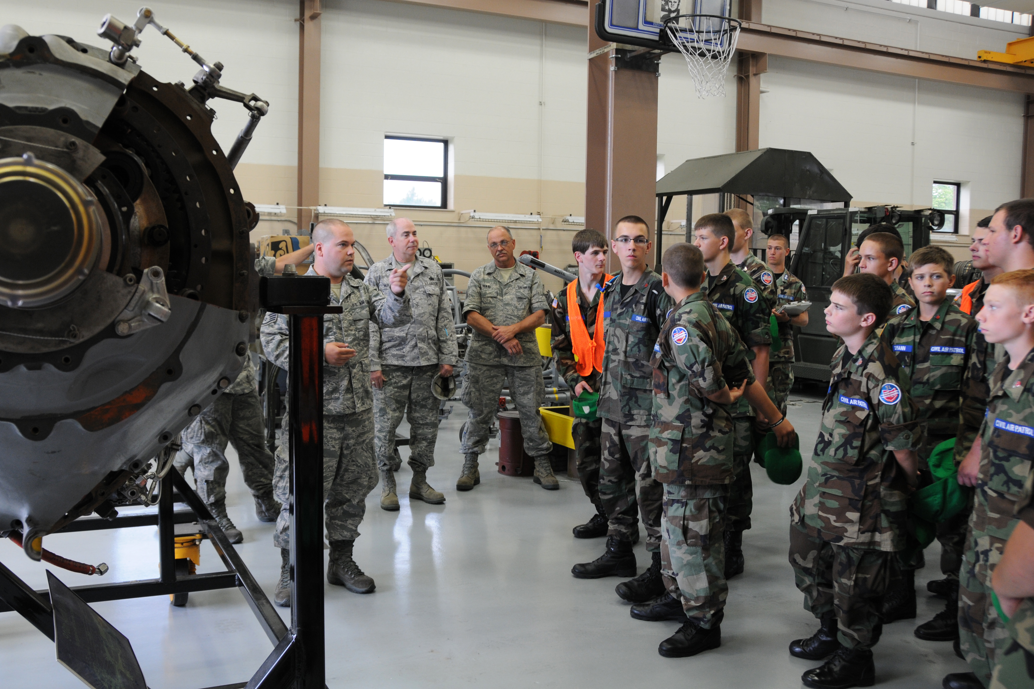 YOUNGSTOWN AIR RESERVE STATION, Ohio—Air Force Reserve Staff Sgt. Derek Pressell, an aerospace proplusion technician, with the 910th Maintenance Squadron explains the components of a C-130H Hercules aircraft cut away engine to Civil Air Patrol cadets. The Civil Air Patrol toured facilities including Propulsion shop, Navy and Marine Corps Reserve center and the 910th aerial spray facilities. U.S. Air Force photo by SrA Rachel Kocin.